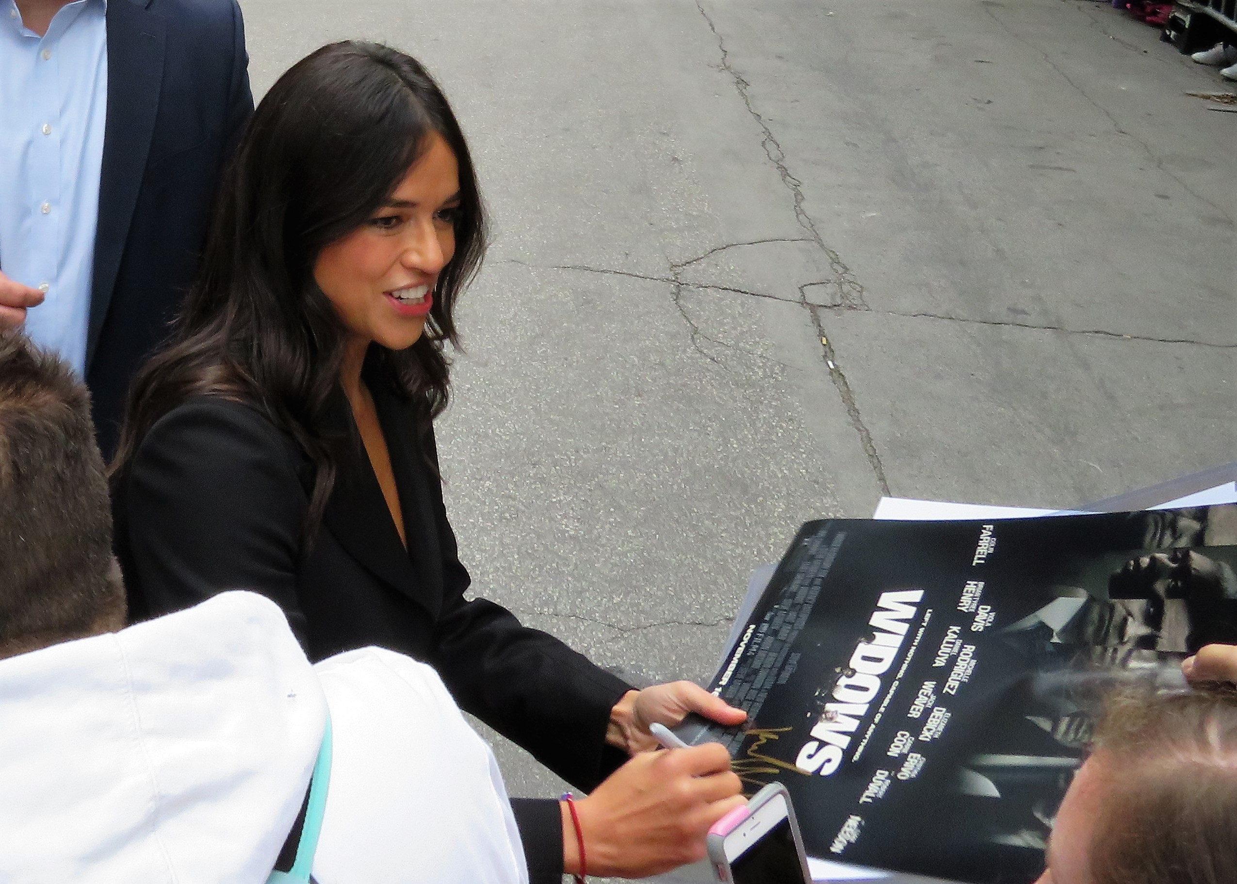 Michelle Rodriguez at the press conference of Widows, 2018 Toronto Film Festival